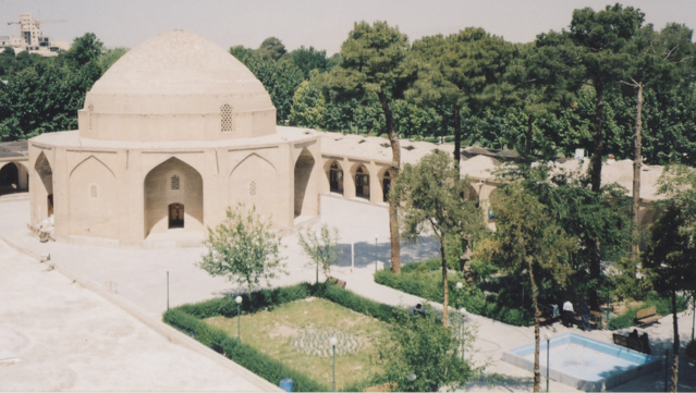 Scanned from photo I took